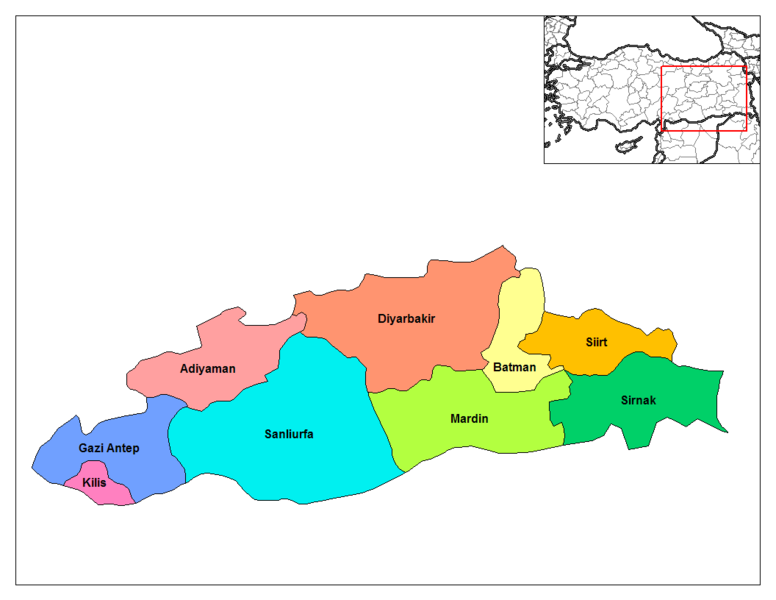 Map of Southeastern Anatolia, Turkey